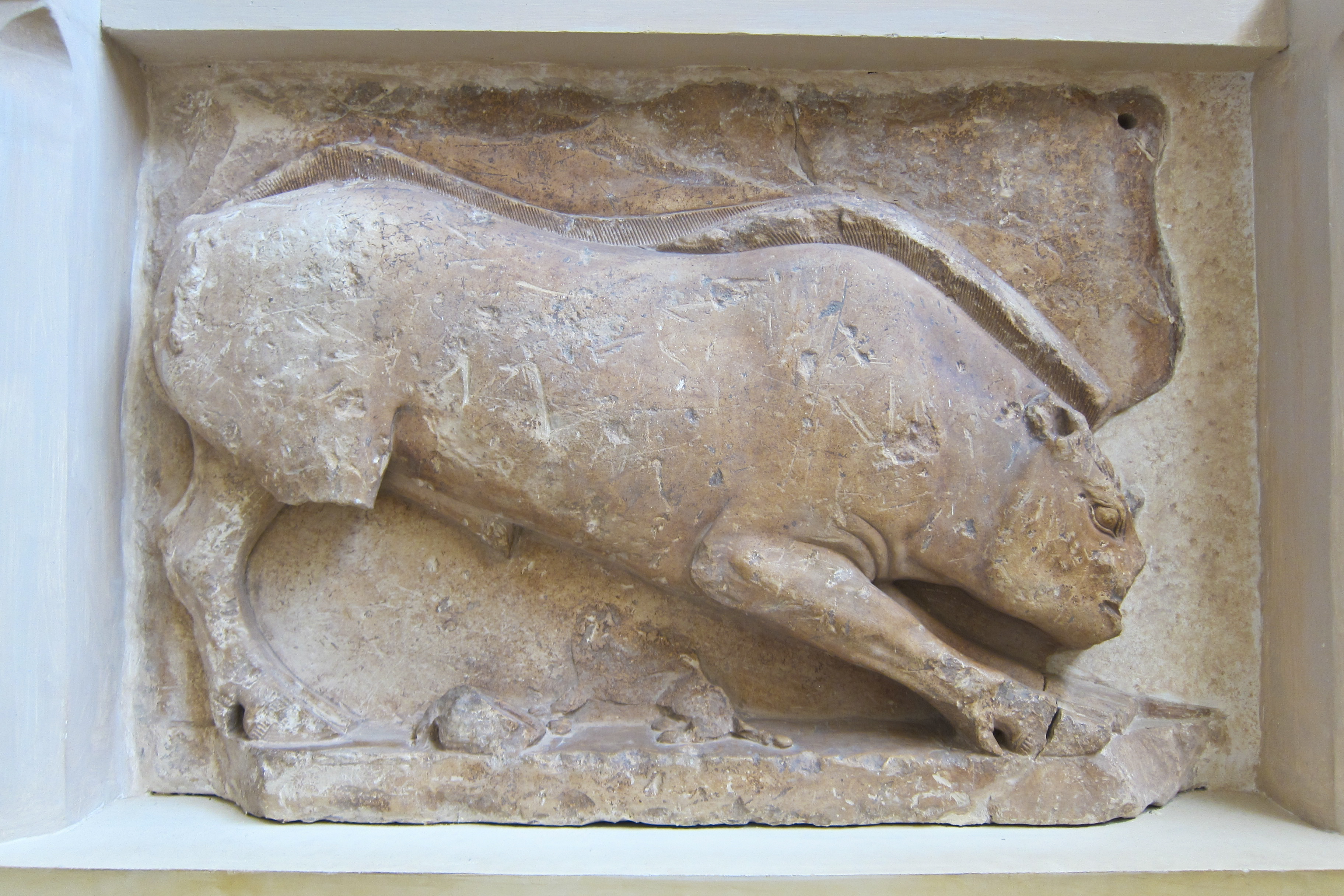 Scene from myth of Calydonian Boar, Delphi, Greece